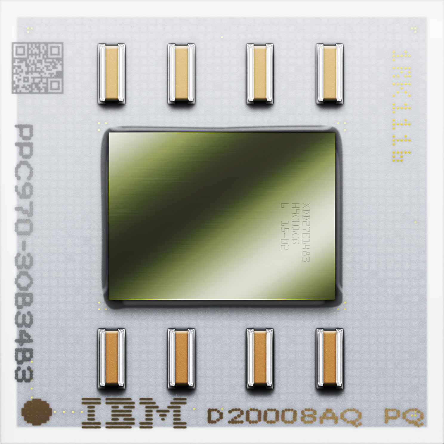 An illustration of IBM's PowerPC 970 microprocessor, also known as the G5 processor. It's manufactured on a 130 nm process in week 20 of 2003. Inspiration for the image comes from numerous pictures on the Internet, IBM, Apple and privately owned photos.